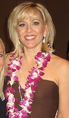 Kellye Cash, Miss America 1987 (image taken in 2007)